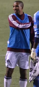 Josh Janniere of the Colorado Rapids